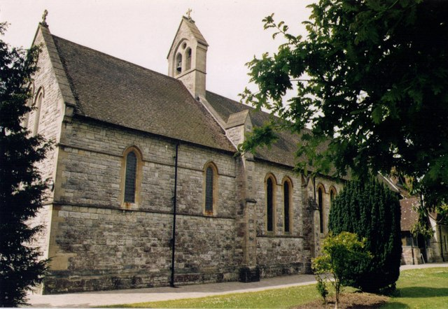 St John the Baptist parish church, Locks Heath, Hampshire